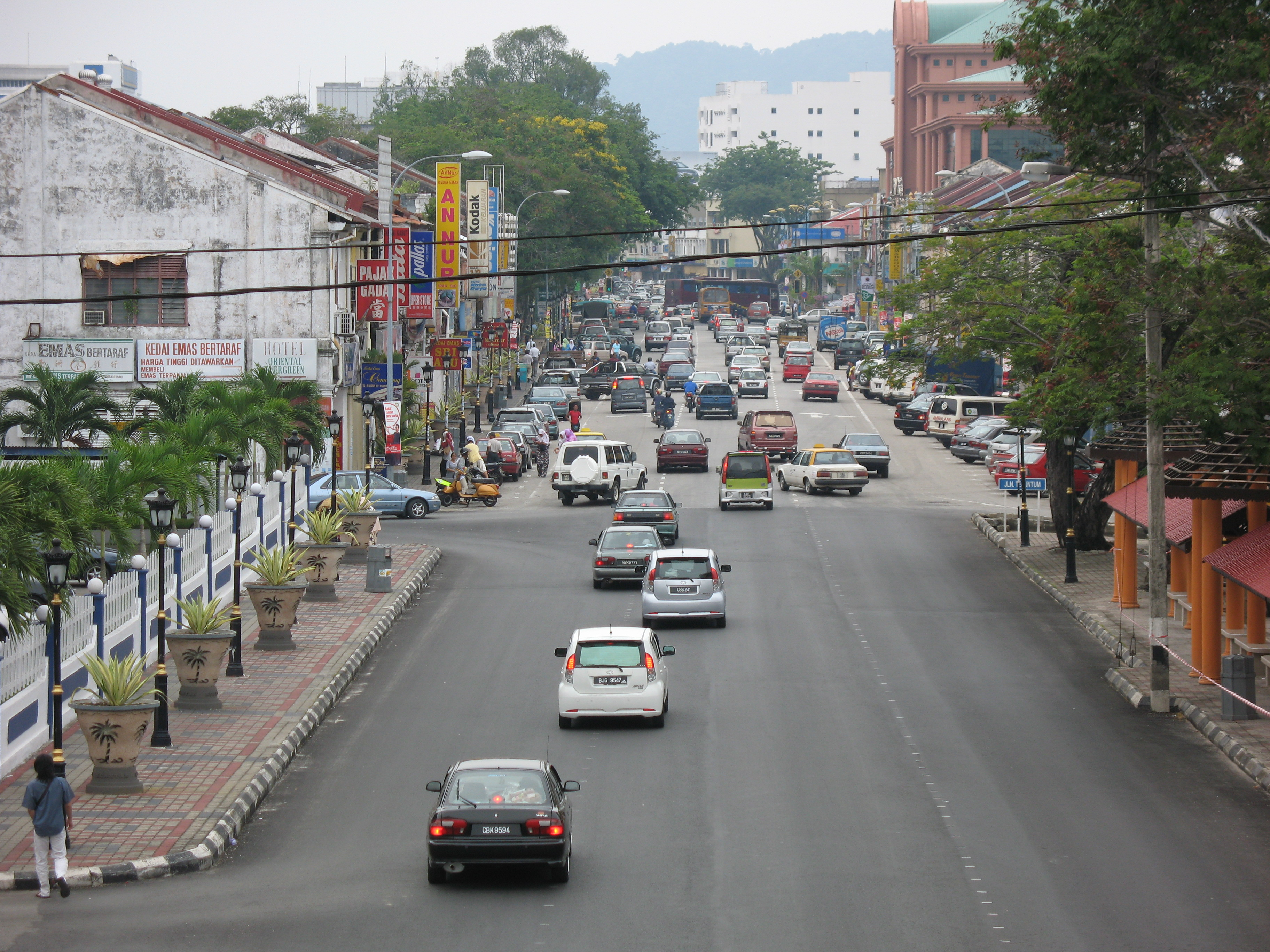 This street is one of the oldest main street in Kuantan. It was called Wall Street during British administration. As of year 2007, it is called Jalan Mahkota.